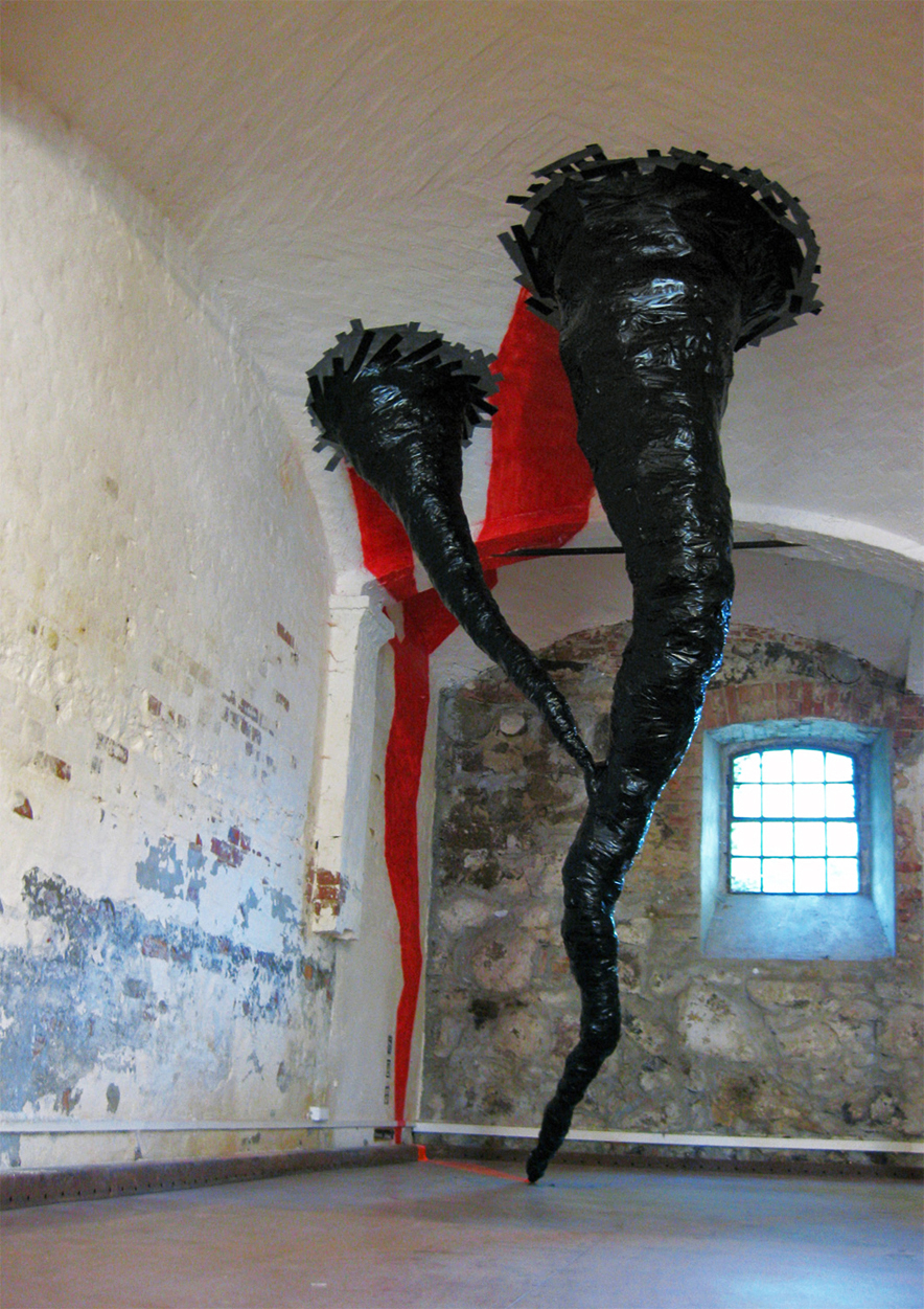 "Portable Tornado" - Tape art installation by Slava Ostap